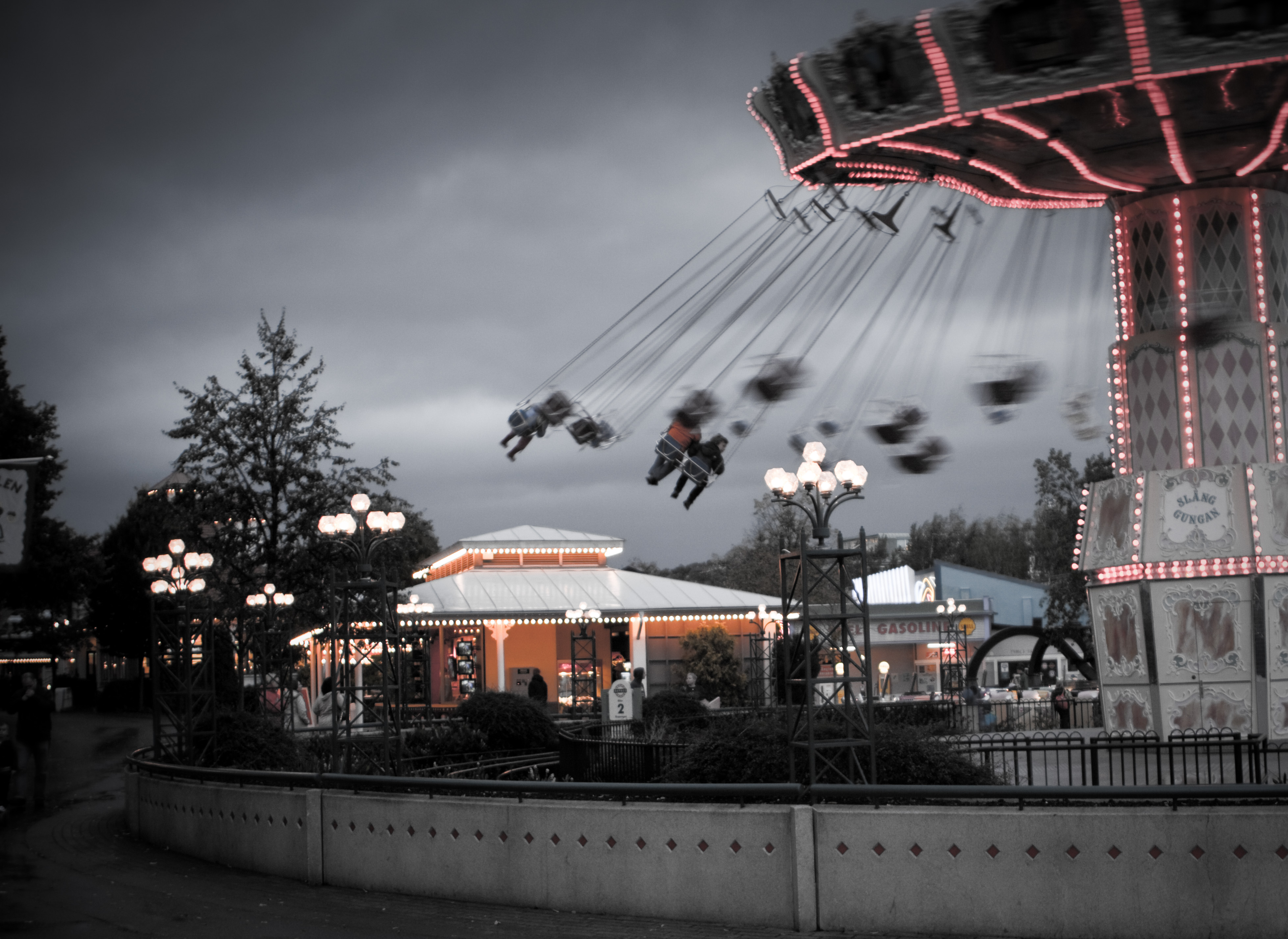 Image taken October 4, 2009.